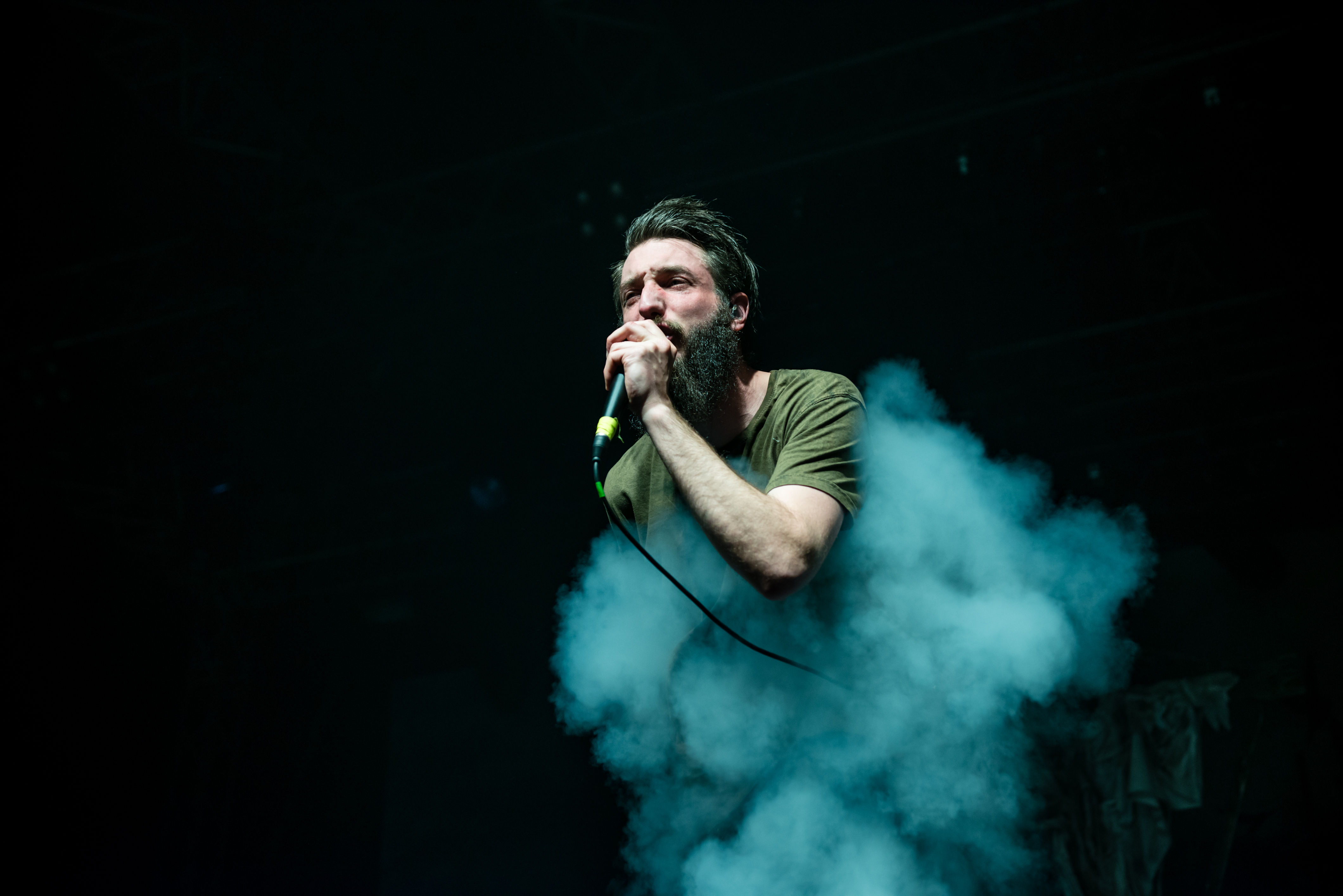 Andreas Dörner, lead singer in German metalcore band Caliban during the Impericon Festival 2015 at Turbinenhalle Oberhausen, Oberhausen, Germany.